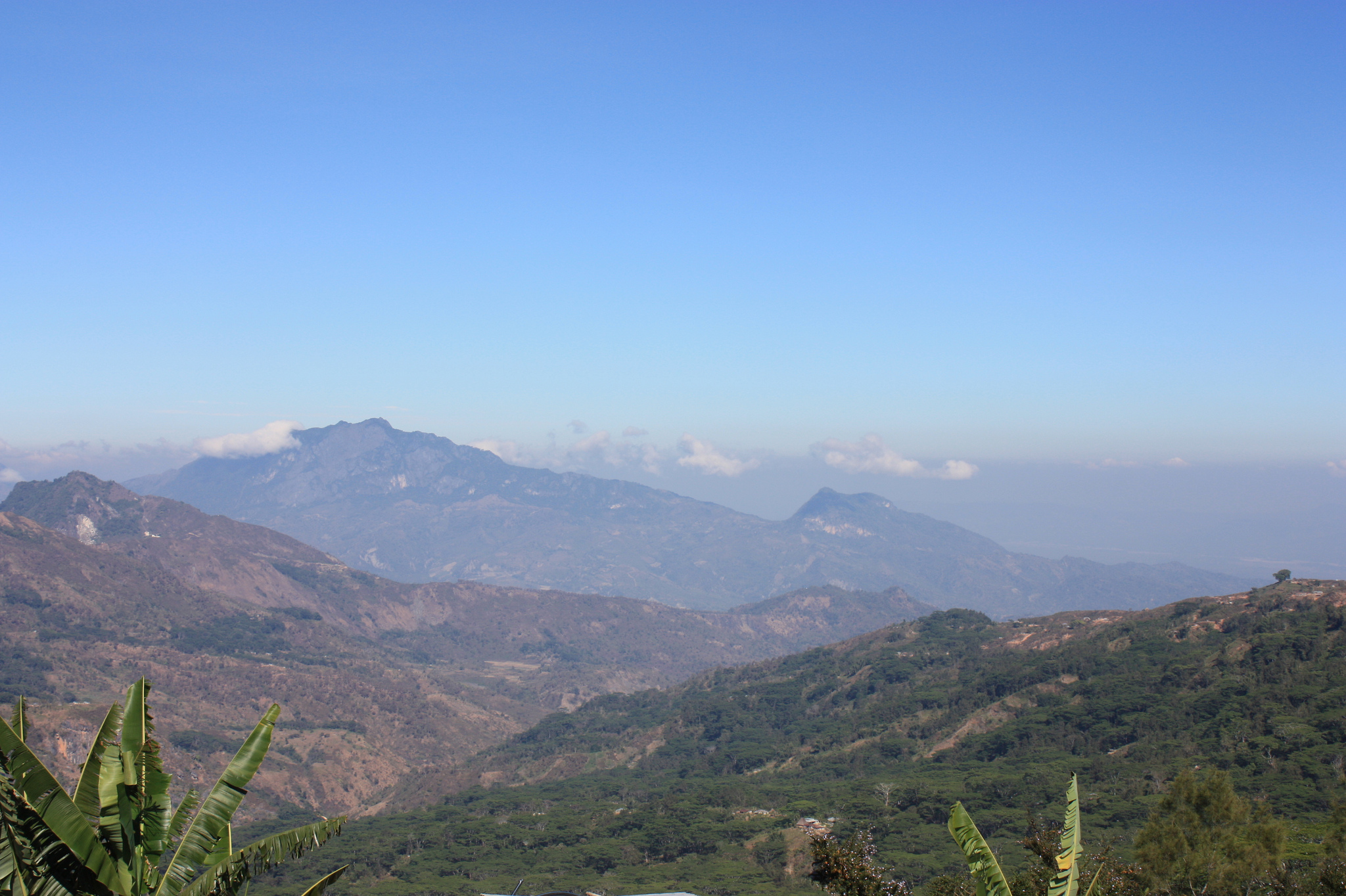 Timor-Leste: Valley of Suco Lauana, Sub-District Letefoho, District Ermera.